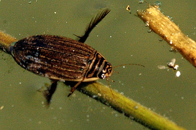 Picture taken in Commanster, Belgian High Ardennes . Please contact James Lindsey when you think this is a different taxon. James Lindsey, the copyright holder of this work, hereby publishes it under the following licenses: Attribution: James Lindsey at Ecology of Commanster